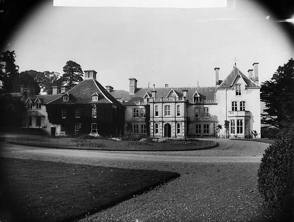 1 negative : glass, dry plate, b&w ; 16.5 x 21.5 cm.